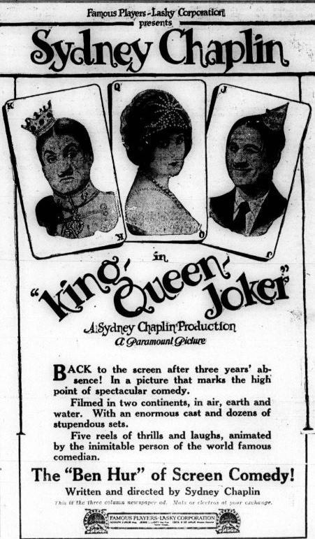 Advertisement for the American comedy film King, Queen, Joker (1921) (listed in the IMDB as King, Queen and Joker) with Sydney Chaplin and Lottie MacPherson, on page 40 of the April 15, 1921 Variety. This is the only film listed for MacPherson.